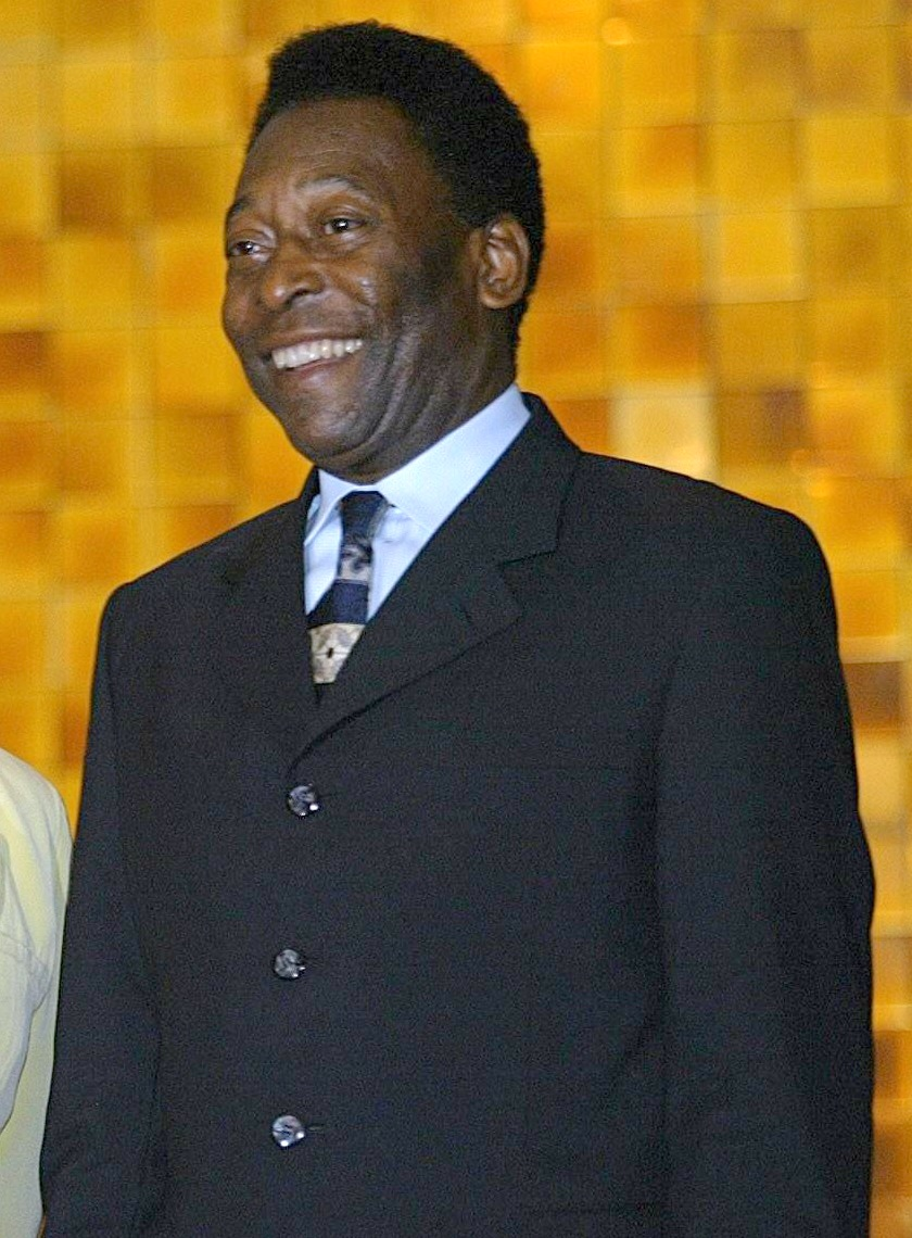 The former Brazilian soccer player Pelé